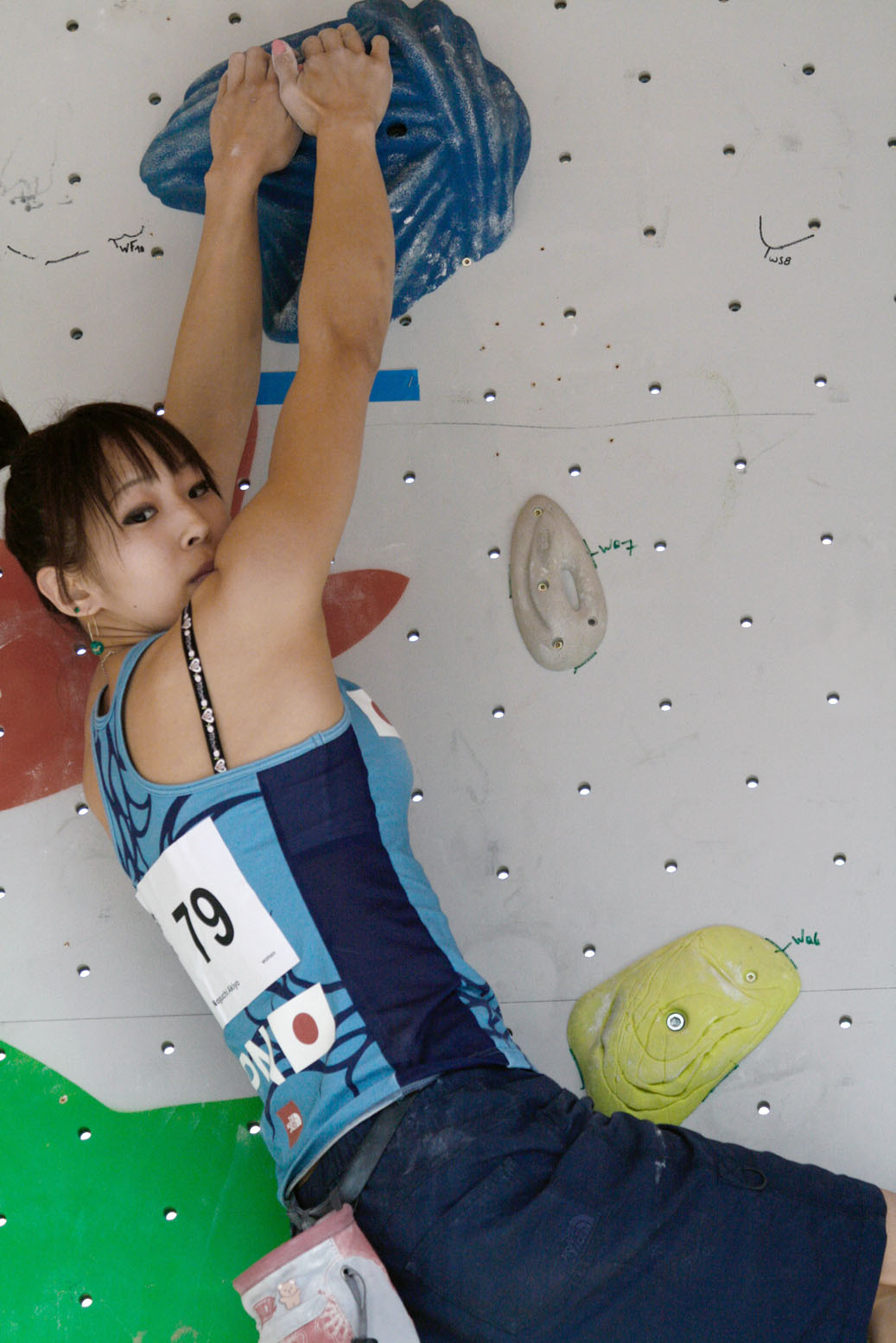 Akiyo Noguchi during qualifications at the IFSC Boulder Worldcup Vienna 2010.